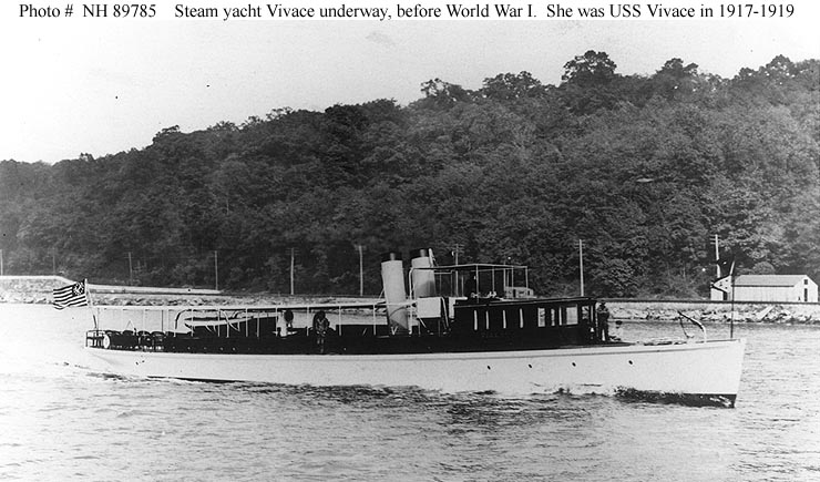 The yacht Vivace prior to her United States Navy service as the patrol vessel .